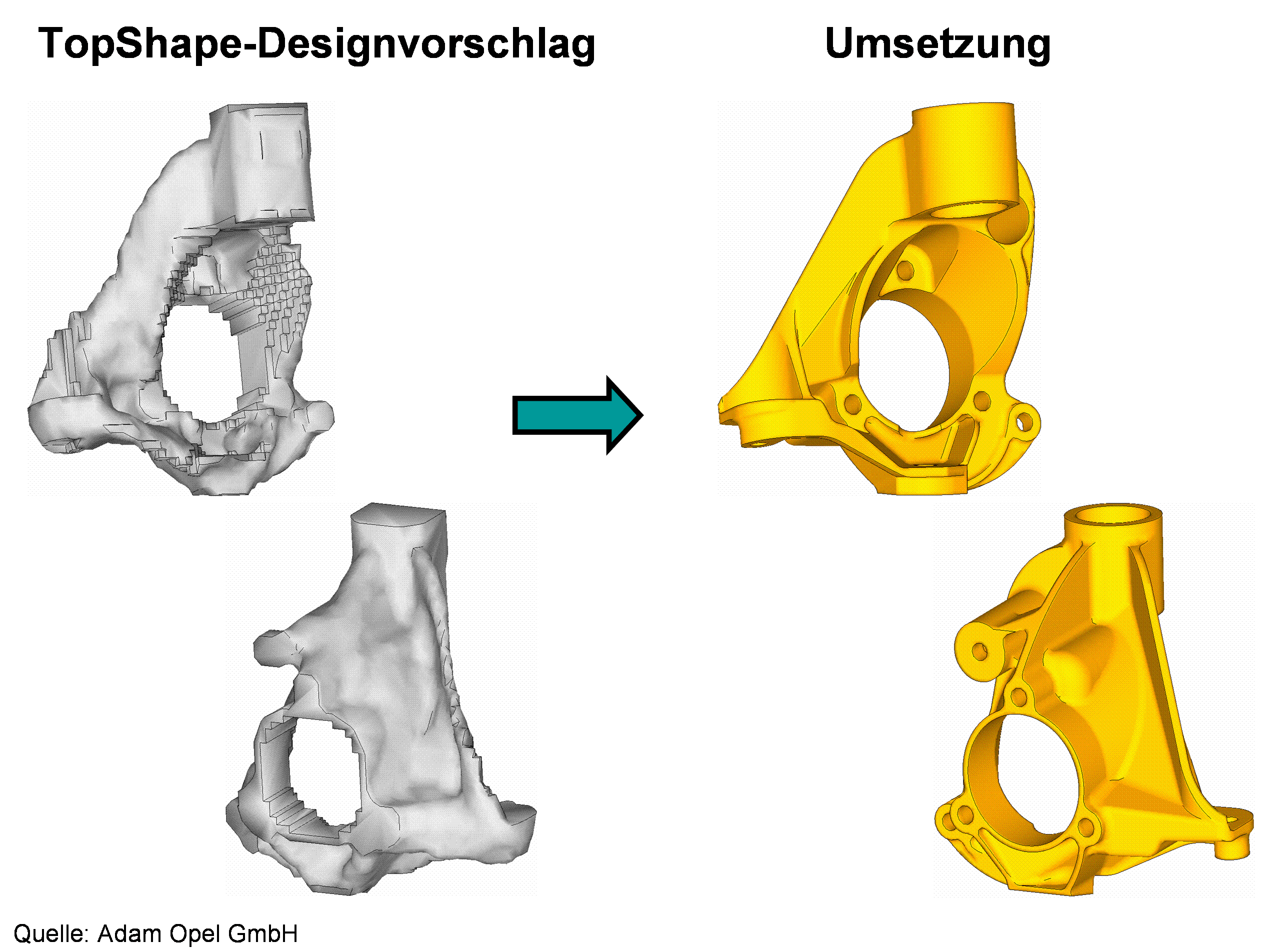 application of TopShape, pic2